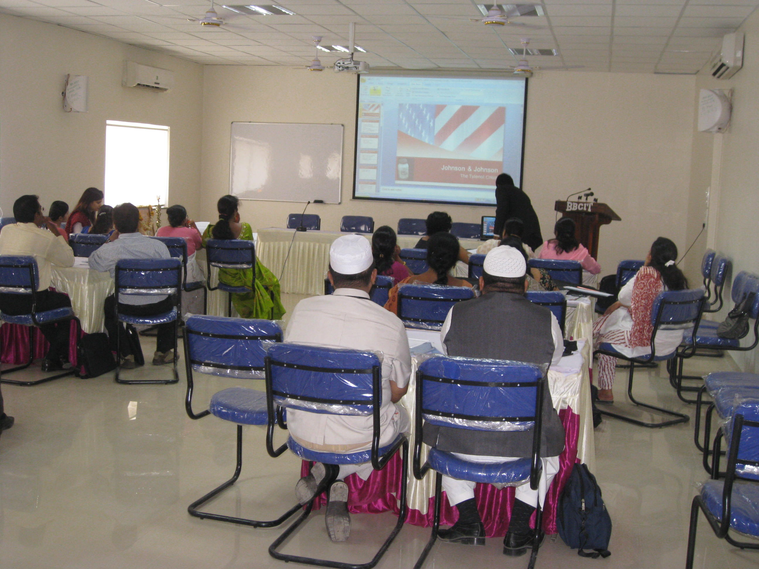 Presentology Business Services, Hyderabad.